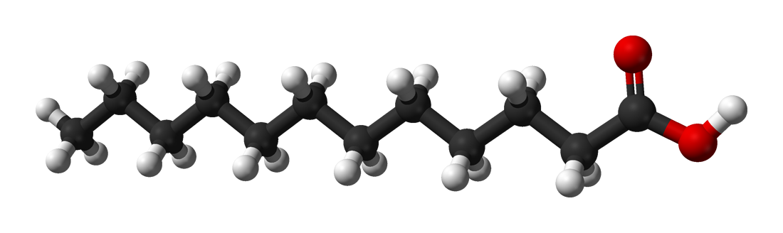 Ball-and-stick model of the lauric acid molecule, C12H24O2, AKA dodecanoic acid.